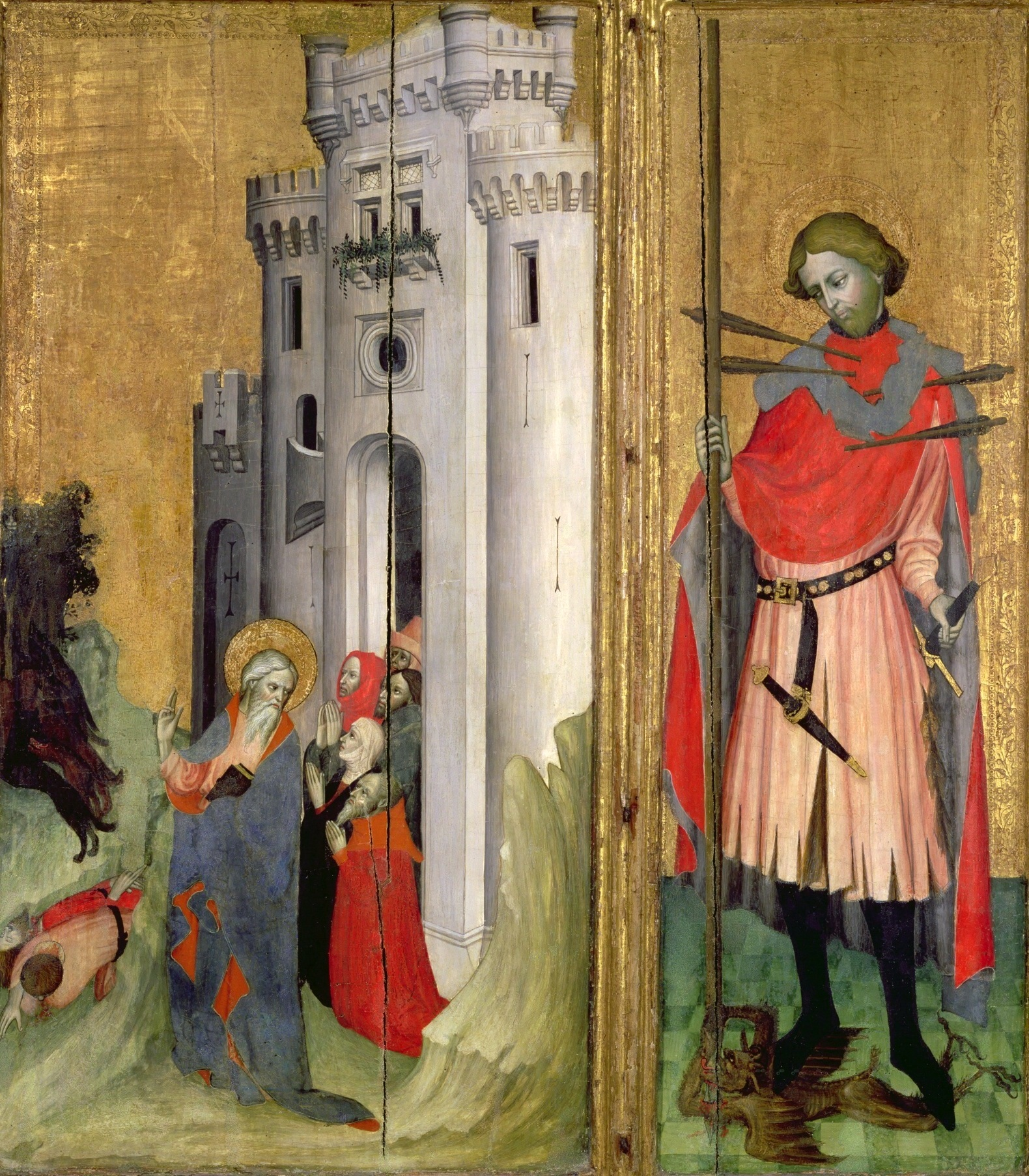 Le retable de Thouzon ca 1410, Louvre